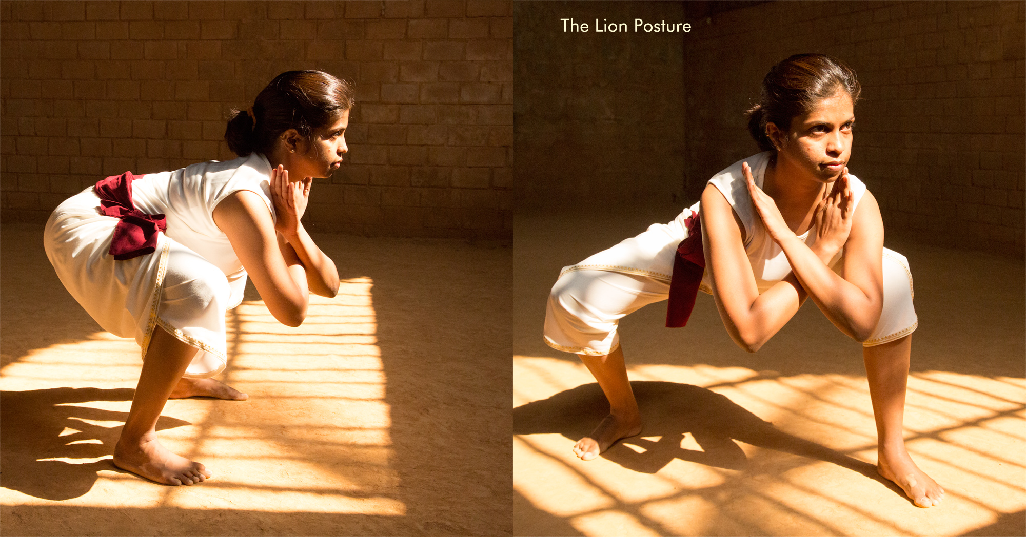 Simha Vadivu or Lion Posture in Kalaripayyattu.